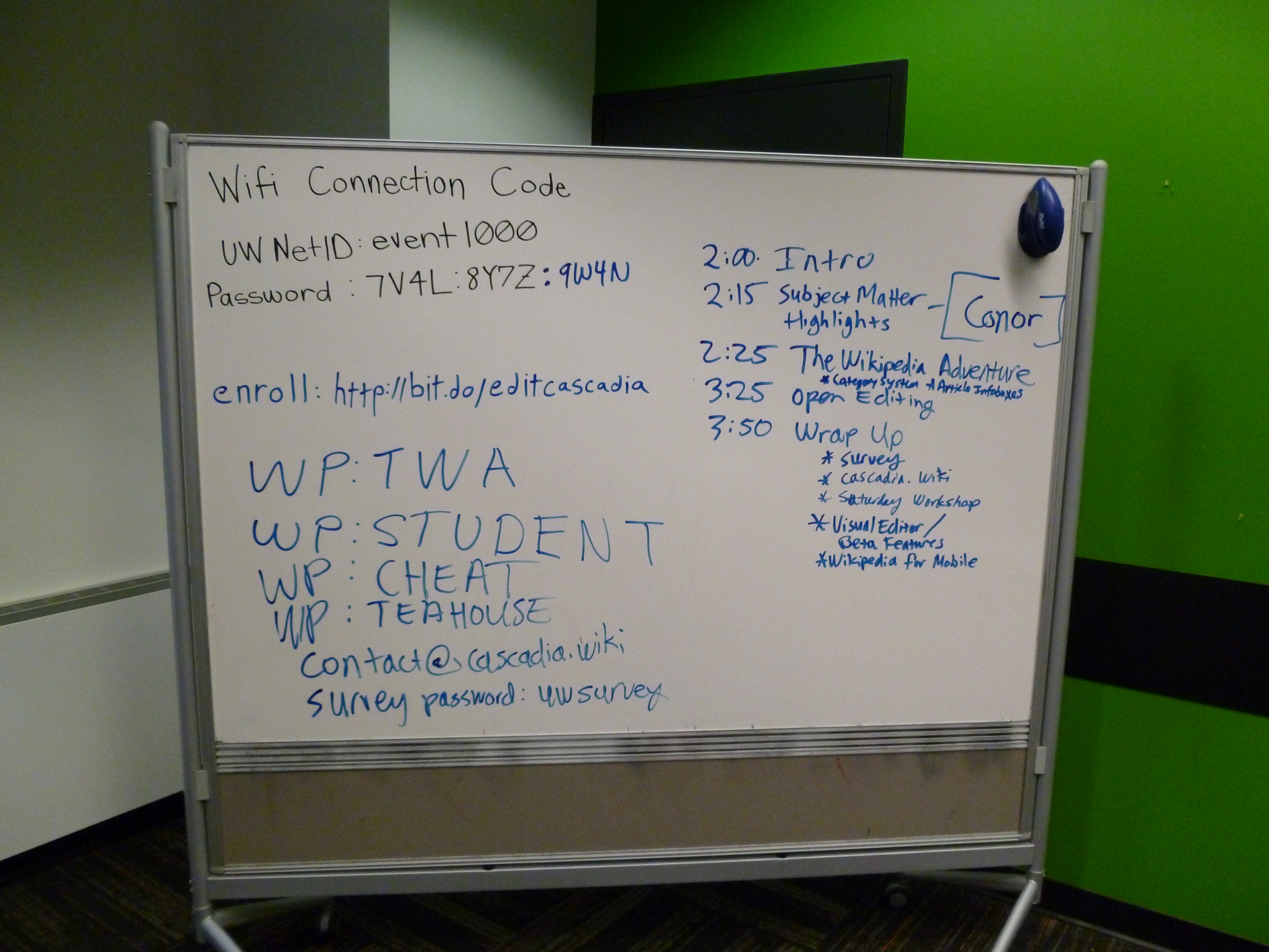 Whiteboard at February 2015 Wikipedia editing workshop